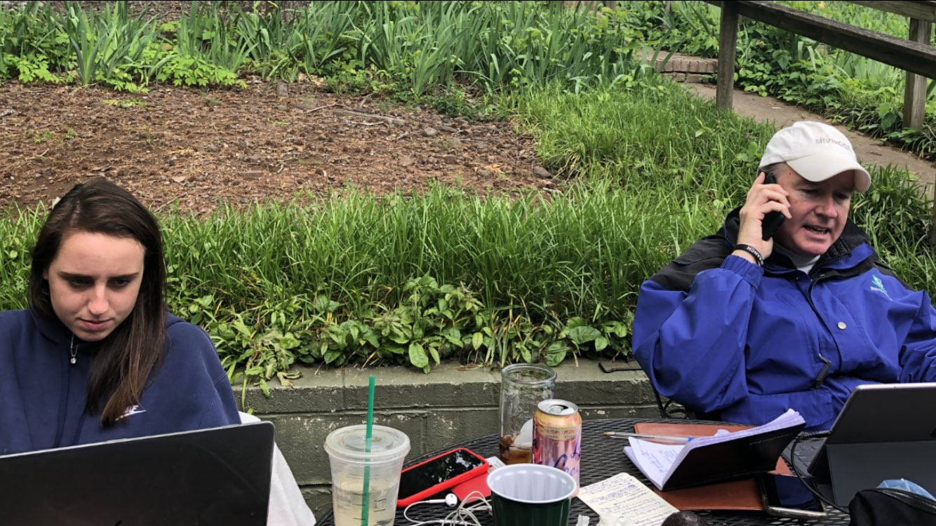 On the @jeff_poor show while Mary Elliott does school work.